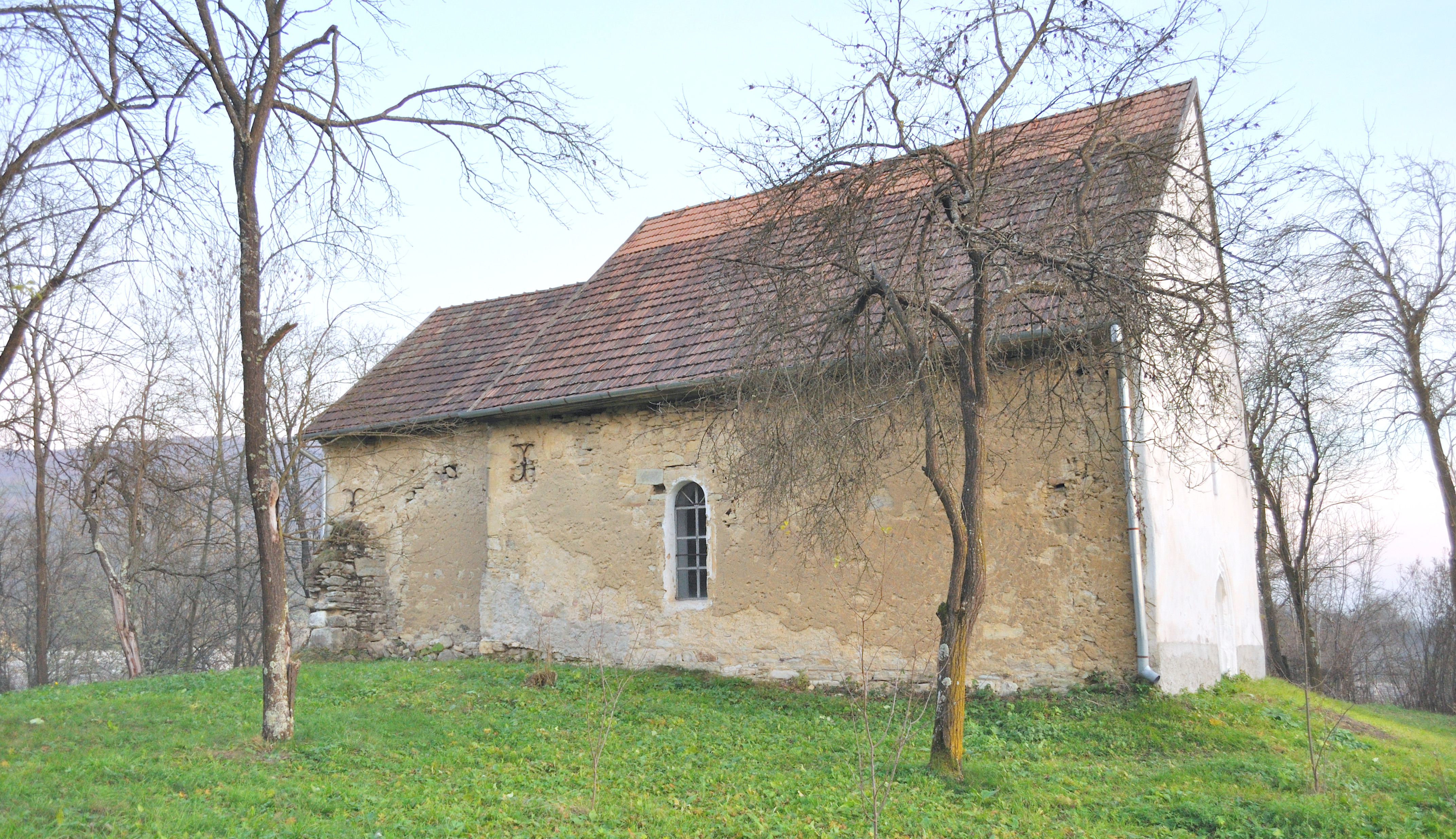 Reformed church in Tiocu de Sus, Cluj County, Romania